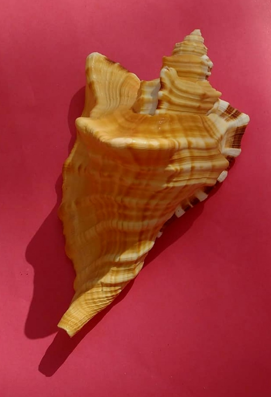 Seashell (upper view) belonging to the mollusk Cymatium raderi D'Attilio & Myers, 1984[1] and collected in the northeast coast of Brazil.